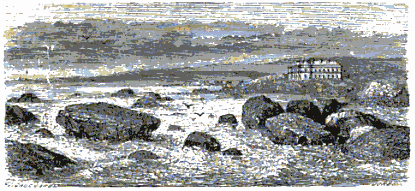 Villa Eugénie, Biarritz, from The Pyrenees: A Description of Summer Life at French Watering Places (1867)